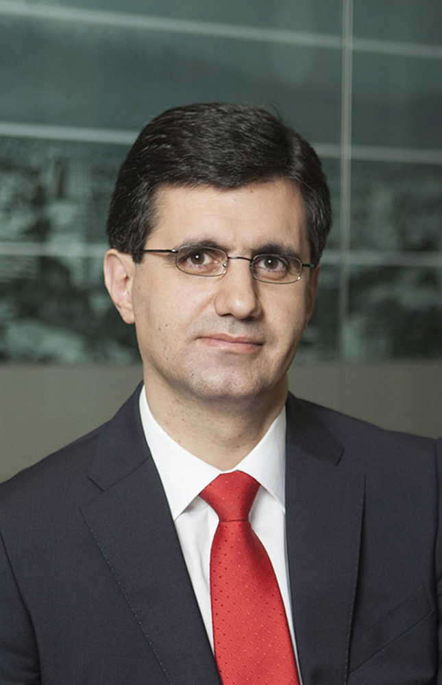 Ralf Yirikyan